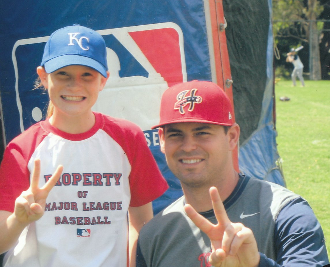 Tristian Crawford with a fan at Training with the Pros